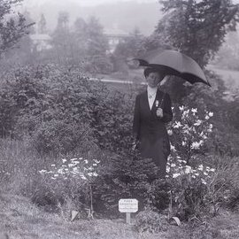 Suffragette Lillian Dove-Willcox 1910 at Eagle House where she planted Picea Orientalis on 10th May 1910.